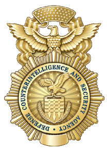 This is a badge of the Defense Counterintelligence Security Agency, extracted from Volume 8 Issue 4 of the DCSA Access Magazine.